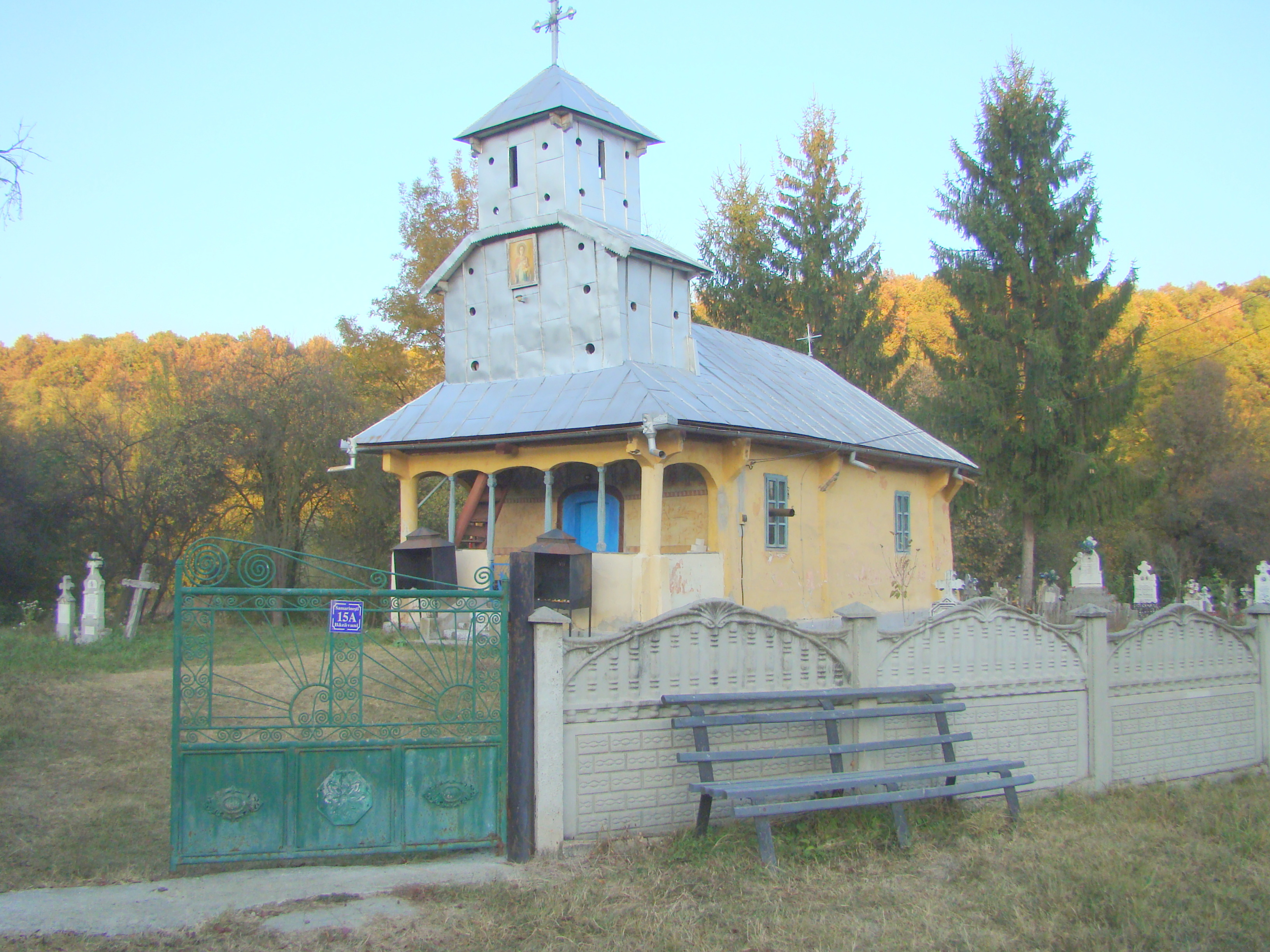 Wooden church in Băzăvani, Gorj county, Romania